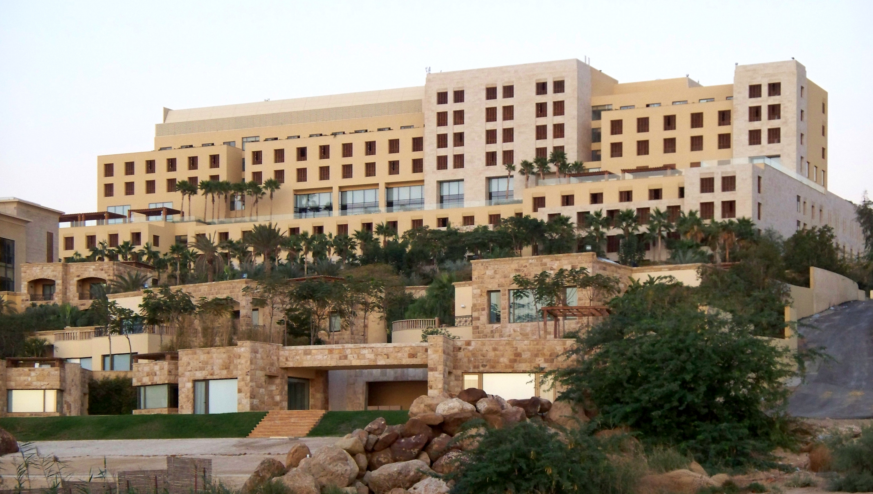 The Kempinski Hotel Ishtar Dead Sea Jordan.